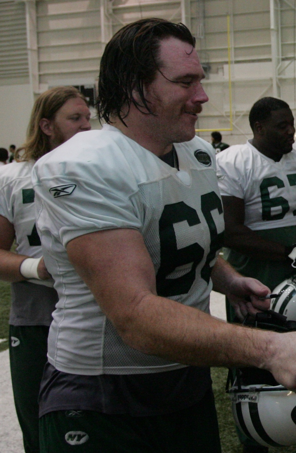 FLORHAM PARK, N.J. -- A Marine from 2nd Battalion, 25th Marine Regiment, meets with Alan Franca, left guard, New York Jets, during a tour of the team's practice facility Nov. 13. The team invited service members to their practice and Sunday the Jets will honor military veterans during their military appreciation day. (Official Marine Corps photo by Sgt. Randall A. Clinton)